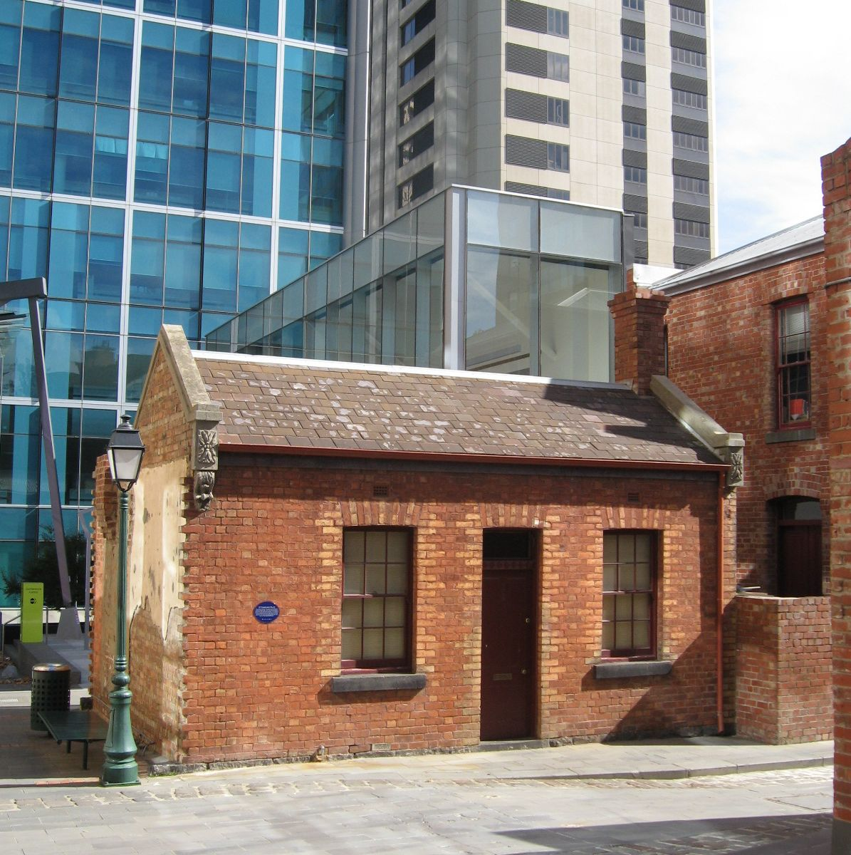 17 Casselden Place, Melbourne. Built mid 1870s.